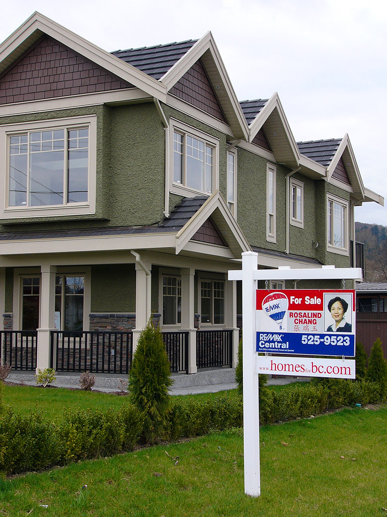 Sherlock Street, Burnaby